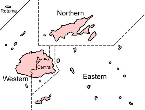 Map of the divisions of Fiji, named in English (local language). Made by User:Golbez.